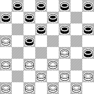 Tabia draughts opening "Klassicheskii (translate:classic) кosyak" in russian checkers